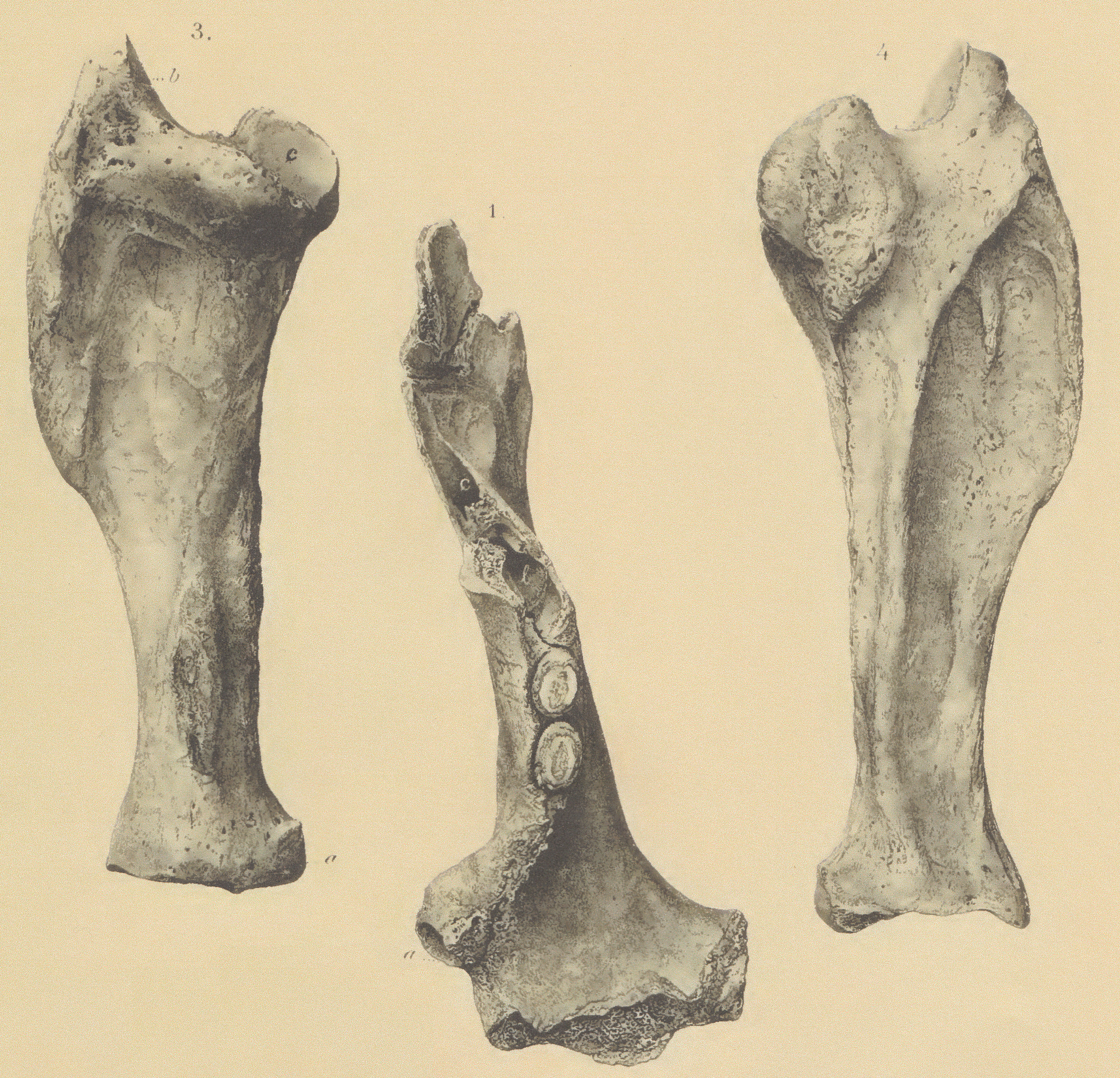 Drawings of the mandible and radius of Platygnathus found by Henrik Nikolai Krøyer 1841 in Uruguay, published by Johannes Theodor Reinhardt: Bidrag til kundskab om kyjaempedovendyret lestodon armatus. Kongelige Danske Videnskabernes Selskabs Skrifter. FemteRække. Naturvidenskabelig og Mattematisk Afdeling 11, 1880 (1875), pp. 1–39. Today Platygnathus is a synonym oif Lestodon